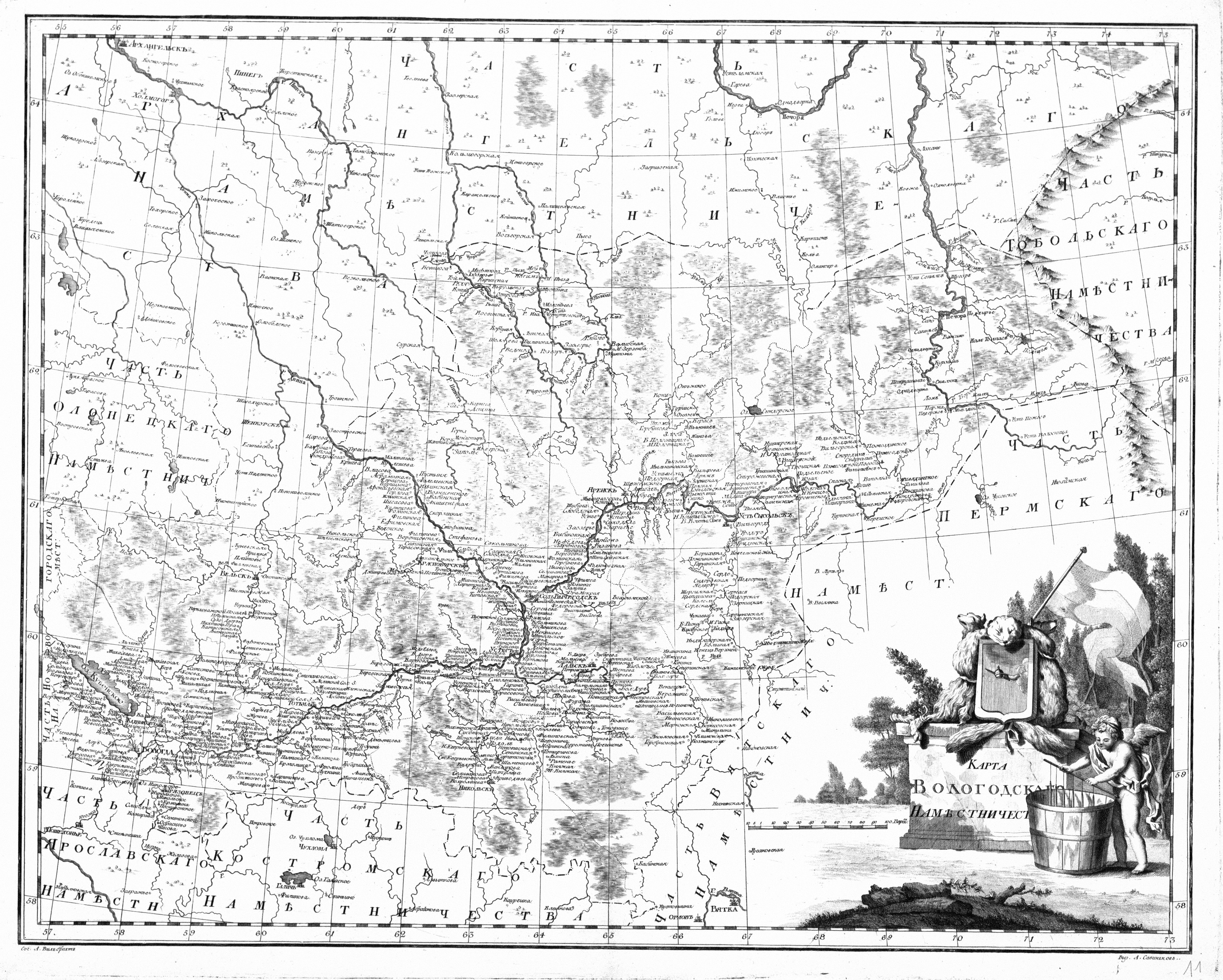 Map of Vologda Namestnichestvo (sheet 11) from official Atlas of the Russian Empire (1792).